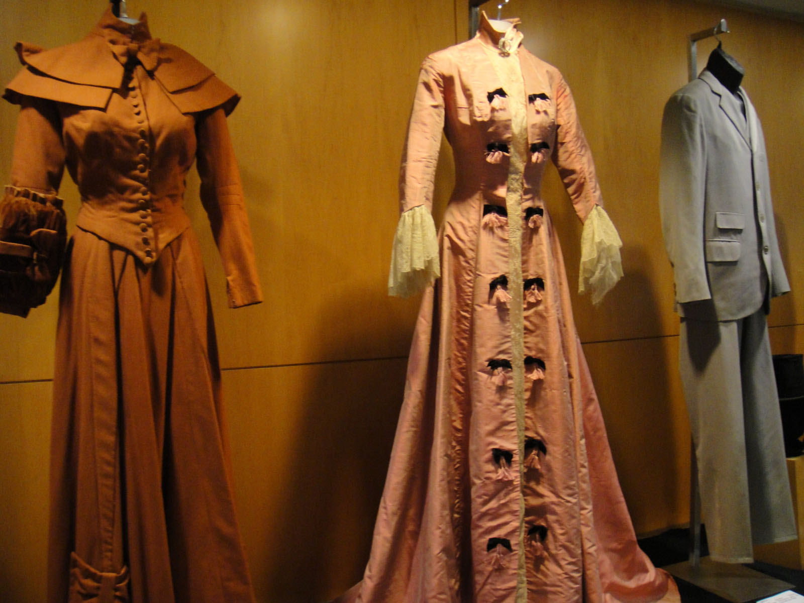 Costumes from "Gigi" at the Debbie Reynolds Auction Breaks Up Historic Hollywood Collection (The Paley Center for Media in Beverly Hills, Los Angeles, CA, USA).